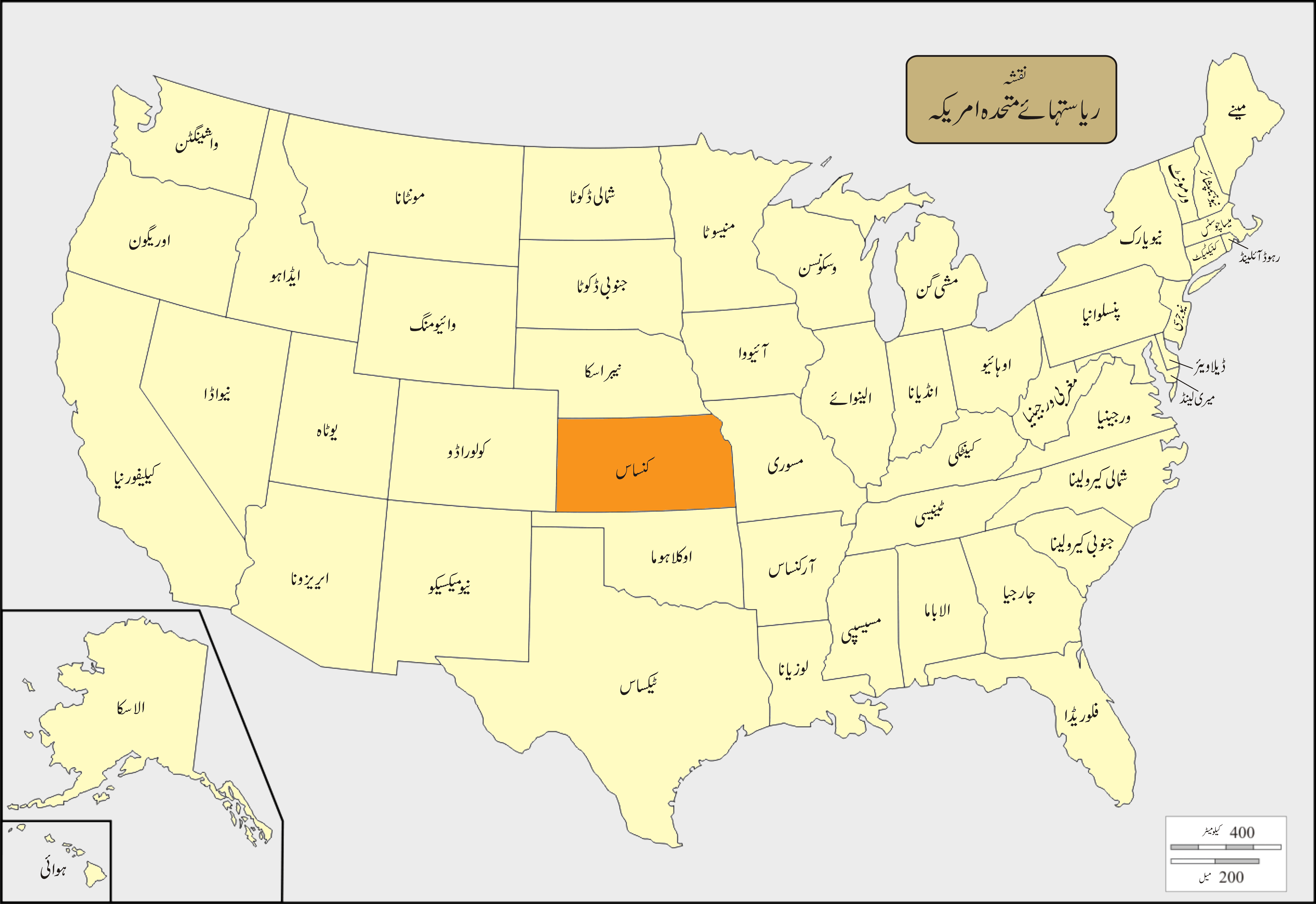 USA Names Kansas